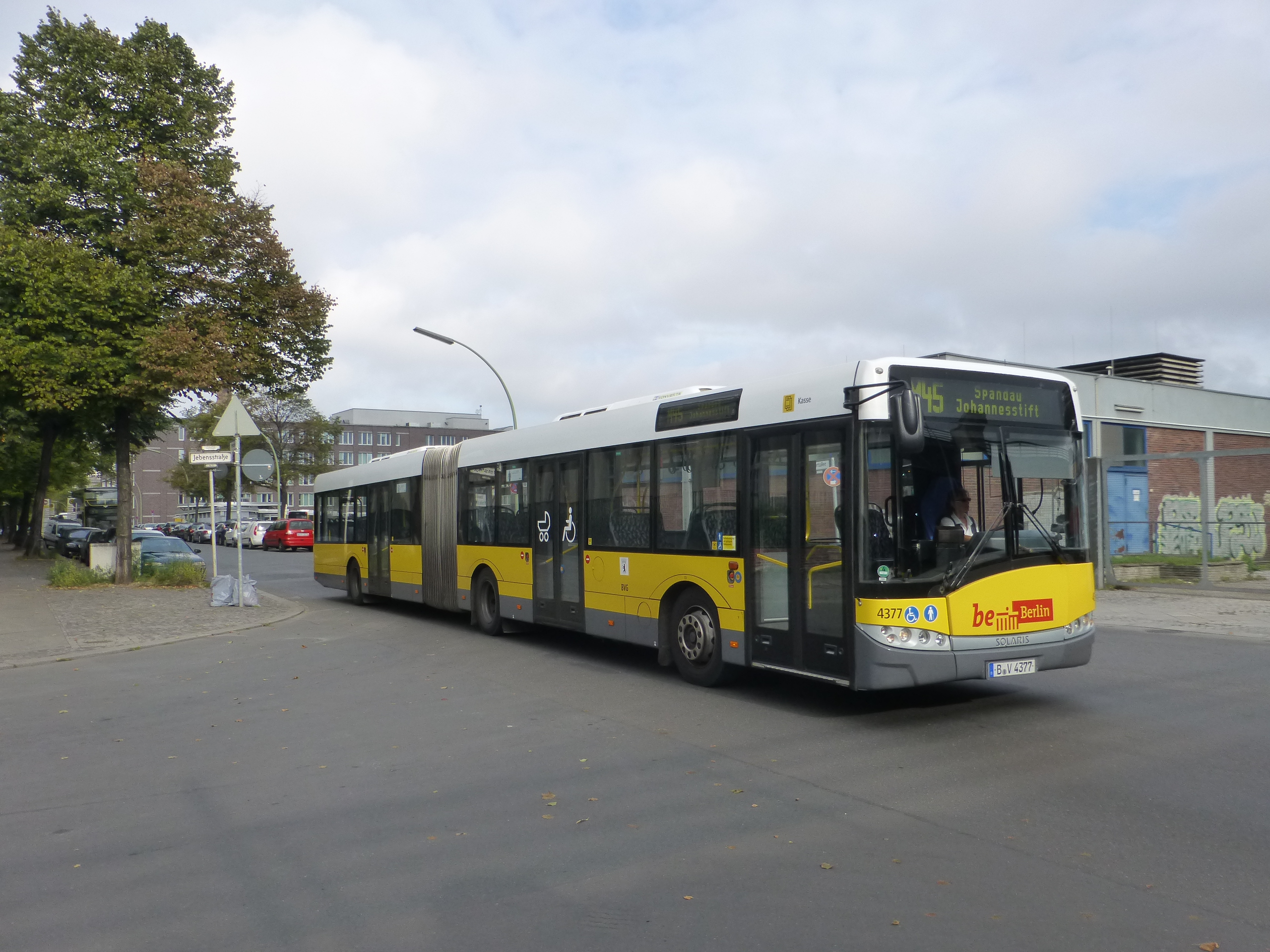 BVG bus linie M45 at the bus depot at Hertzallee behind Bahnhof Berlin Zoologischer Garten.